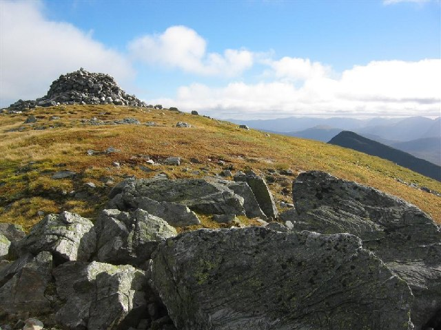 Summit Cairn, Sgurr a Mhaim, 3,605 feet (1099 m)